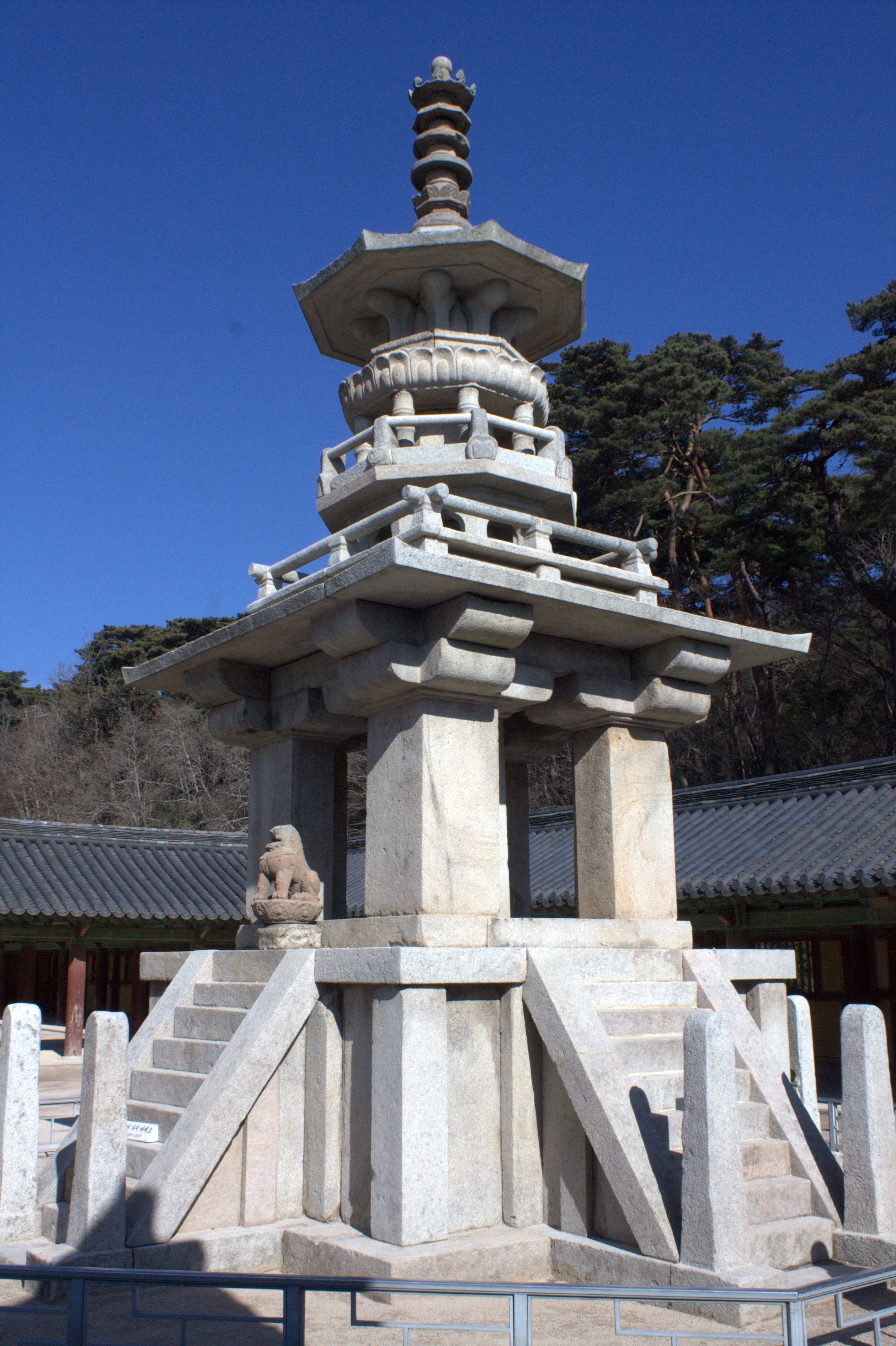 The stone pagoda of many treasures at the temple of Bulguksa in Gyeongju, South Korea.